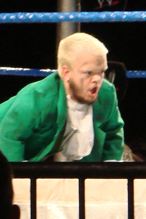 Little Bastard at a Smackdown! Live Event. Champaign, IL February 4en:2007.